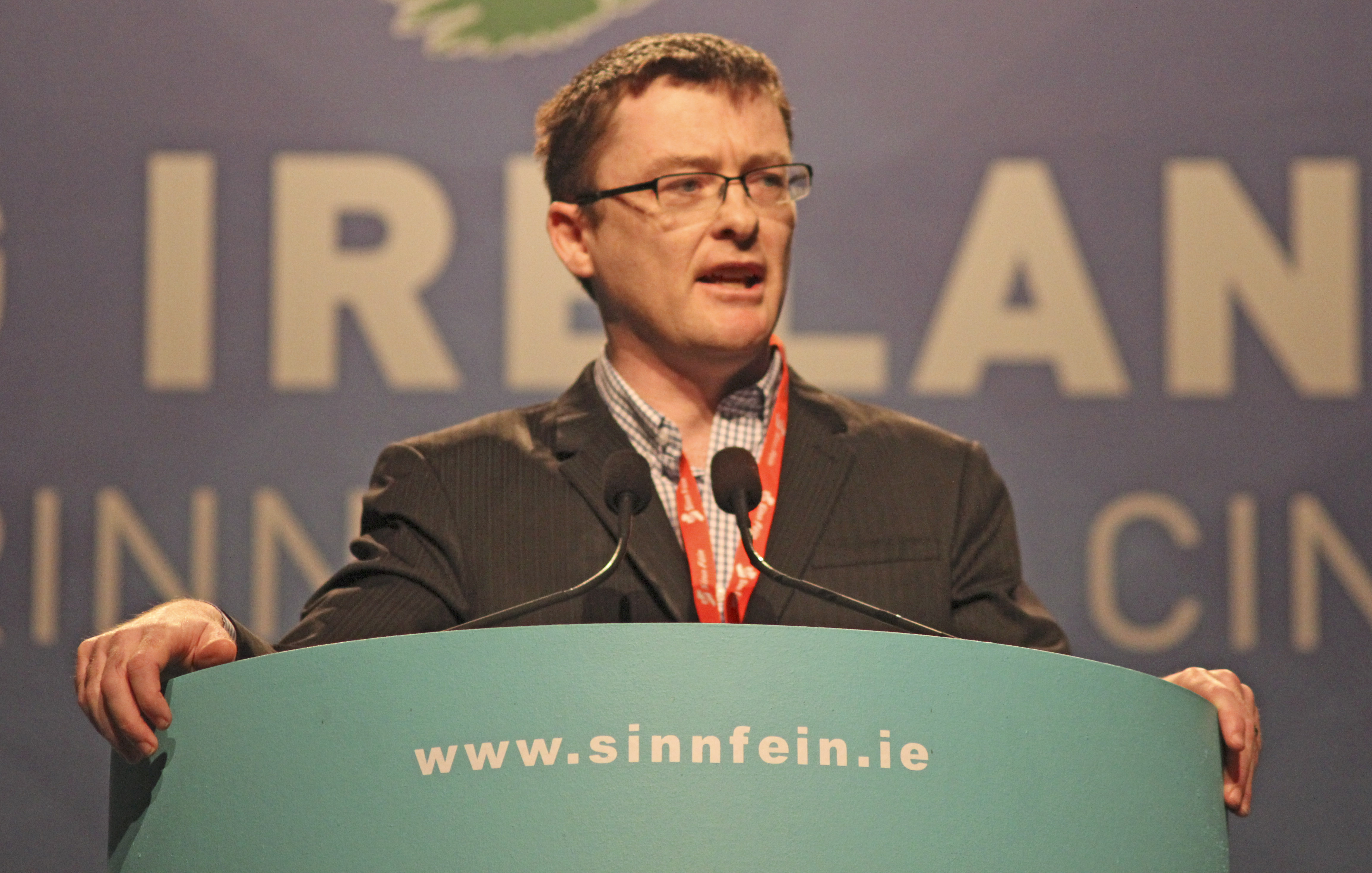 David Cullinane in 2014